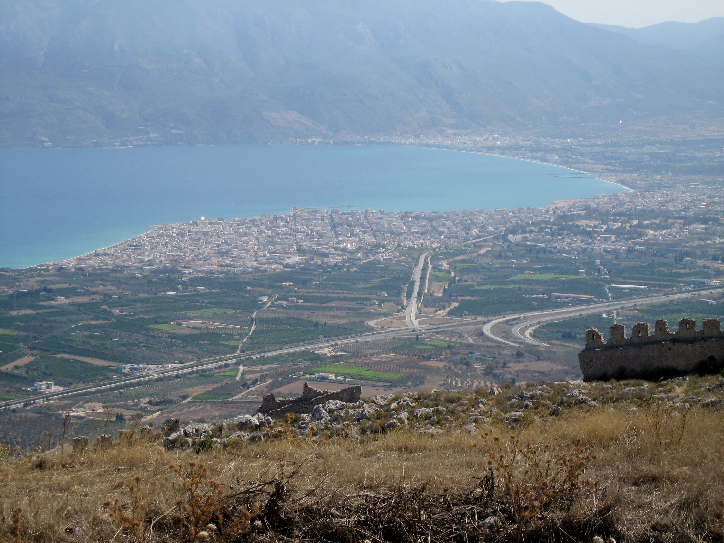 The city of Corinth and the east end of the Gulf of Corinth, from the summit of Acrocorinth